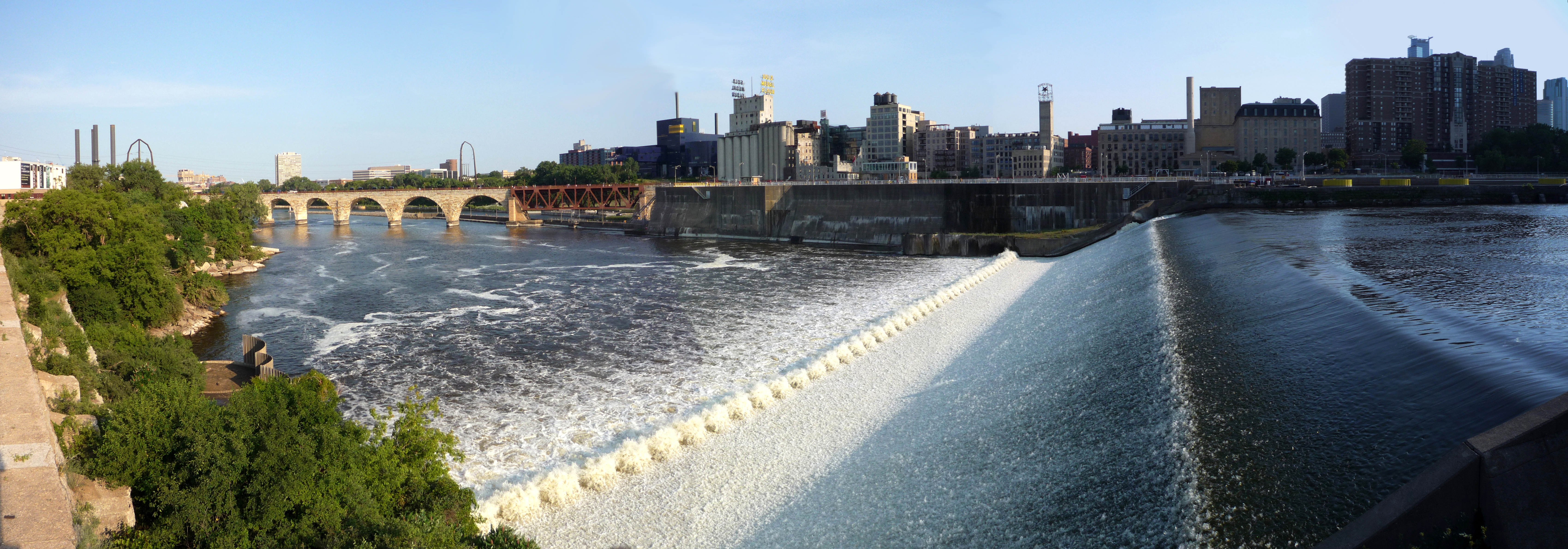 Panoramic photo from the new Water Power Park on the Mississippi River in Minneapolis, Minnesota. Visible from this vantage: the main portion of Saint Anthony Falls; the concrete wall on the far side of the falls is part of the locks to allow ships to pass the waterfall; to the left is the Stone Arch Bridge, above it is the Guthrie Theater; to the right of the Guthrie are the white silos and reconstructed shell of the former Washburn "A" Mill, now the Mill City Museum; to the right of the museum are a series of redeveloped flour and grain mills making up a significant portion of the city's Mills District.